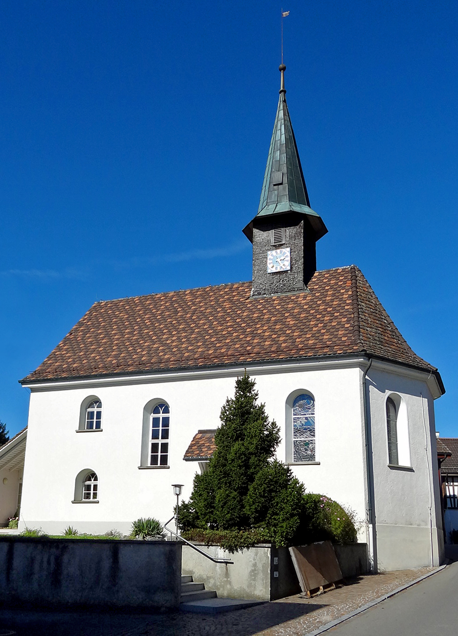 Church of Raperswilen, Switzerland